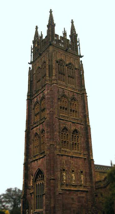 West tower of the parish church of St Mary Magdalene, Taunton, Somerset, seen from the south